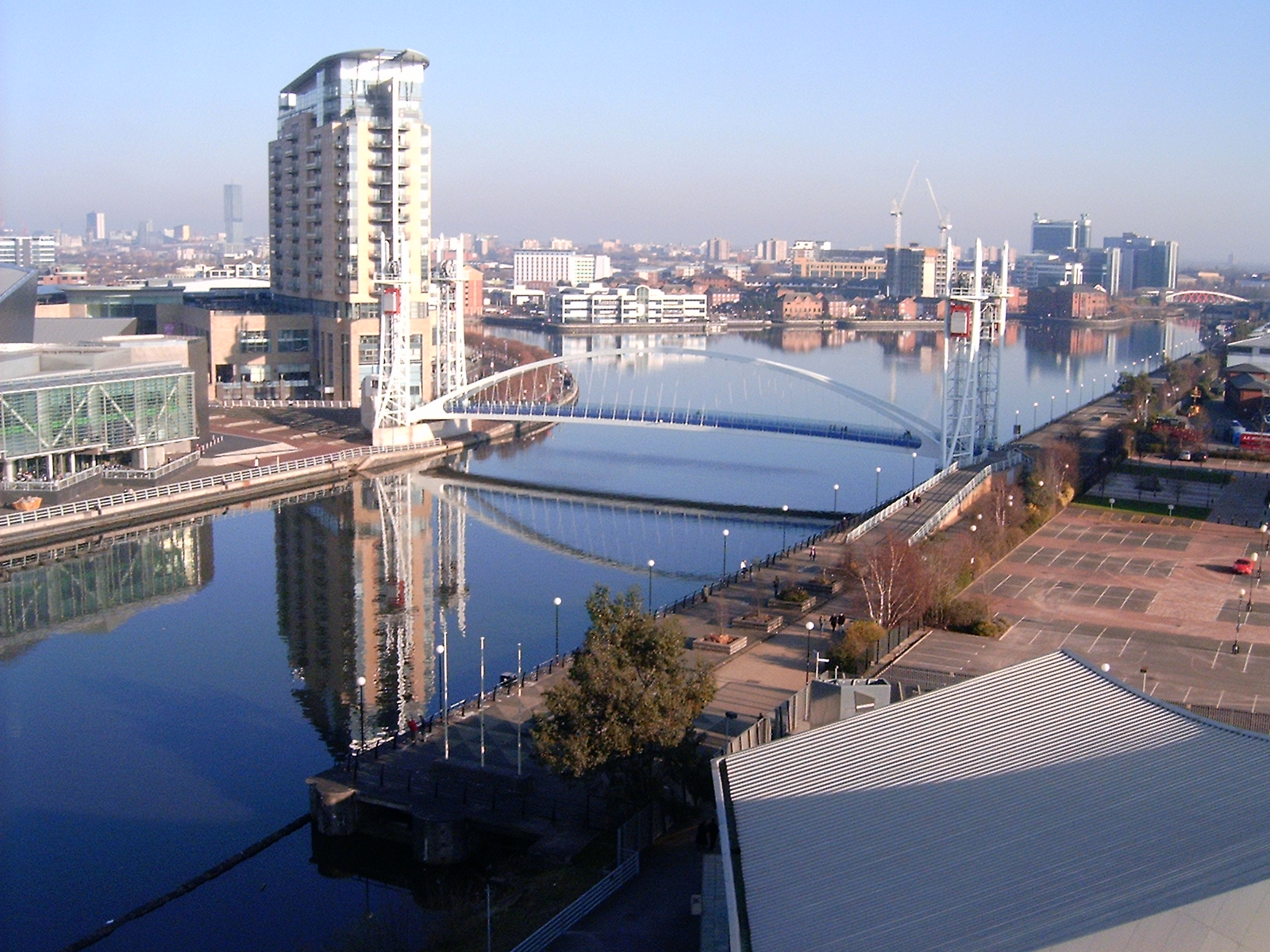 Salford Quays. Left side (north) of Manchester Ship Canal: The Lowry, Lowry Outlet Mall, The Quays. Right side (south): Imperial War Museum North. Millennium Footbridge at centre.